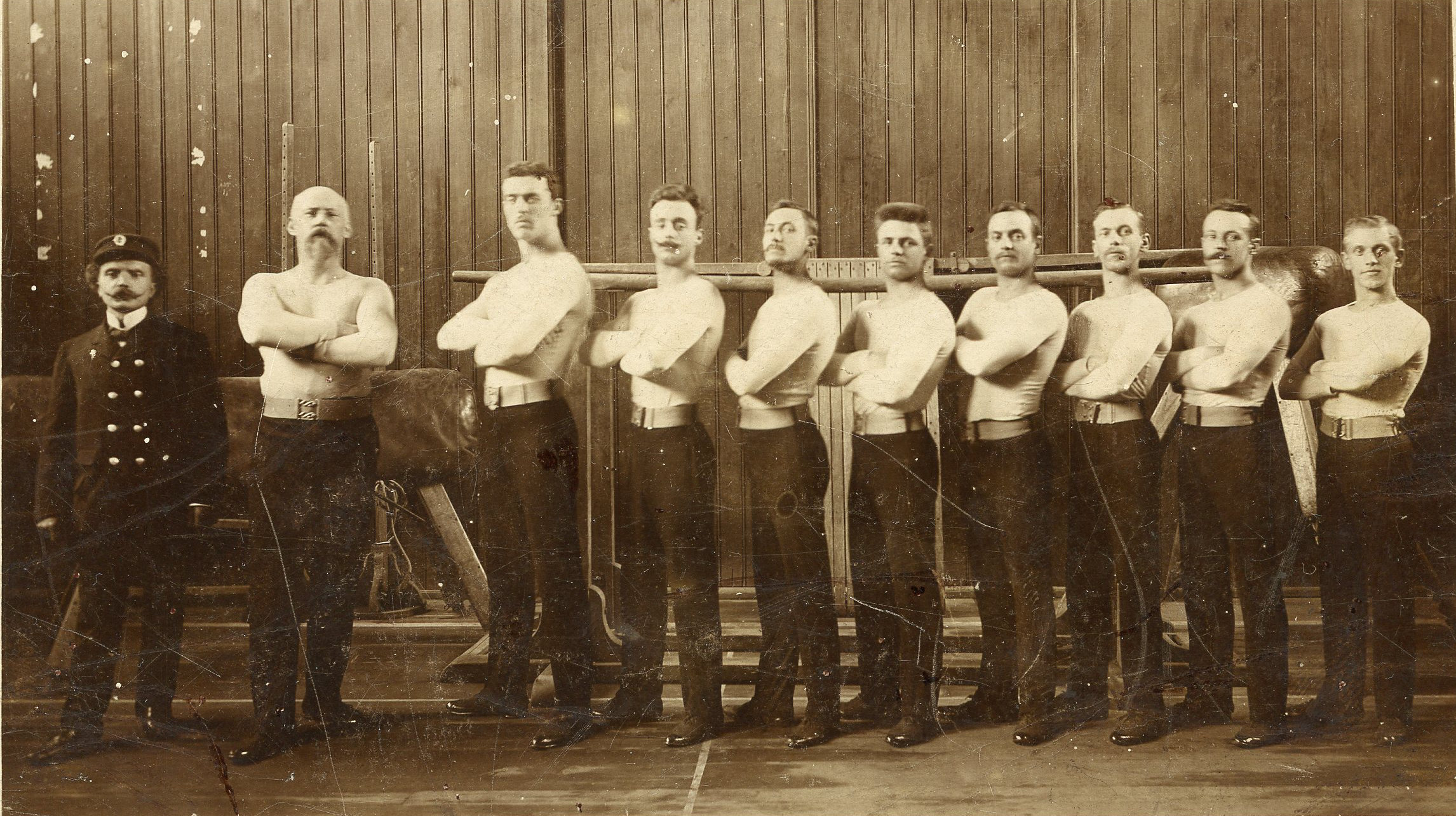 Johan Henri Antoine Gerrit Schmitt (1881-1955) was a member of the Dutch gymnastics team at the 1905 World Artistic Gymnastics Championships that was held in Bordeaux, France. The Dutch competitors were J. Janssen, D. Janssen, J.H. Reder, J.J. Kieft, J.H.A.G. Schmitt (all from Amsterdam), G.J. Douw (from Rotterdam), B. Florijn (from Utrecht) and F.J.W. Lambert (from Alkmaar). Kieft en Reder were replacements. Teamleader on the left was D. de Boer, 3rd from the left is J.H.A.G. Schmitt, 4th from the left is Ferdinand Jan Willem Lambert.